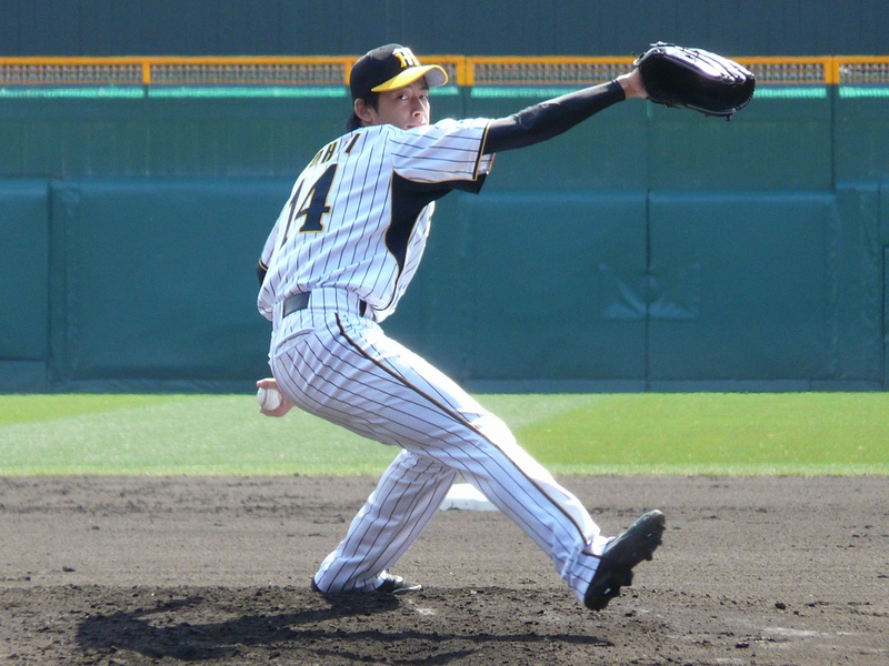 HT-Atsushi-Nomi20110309